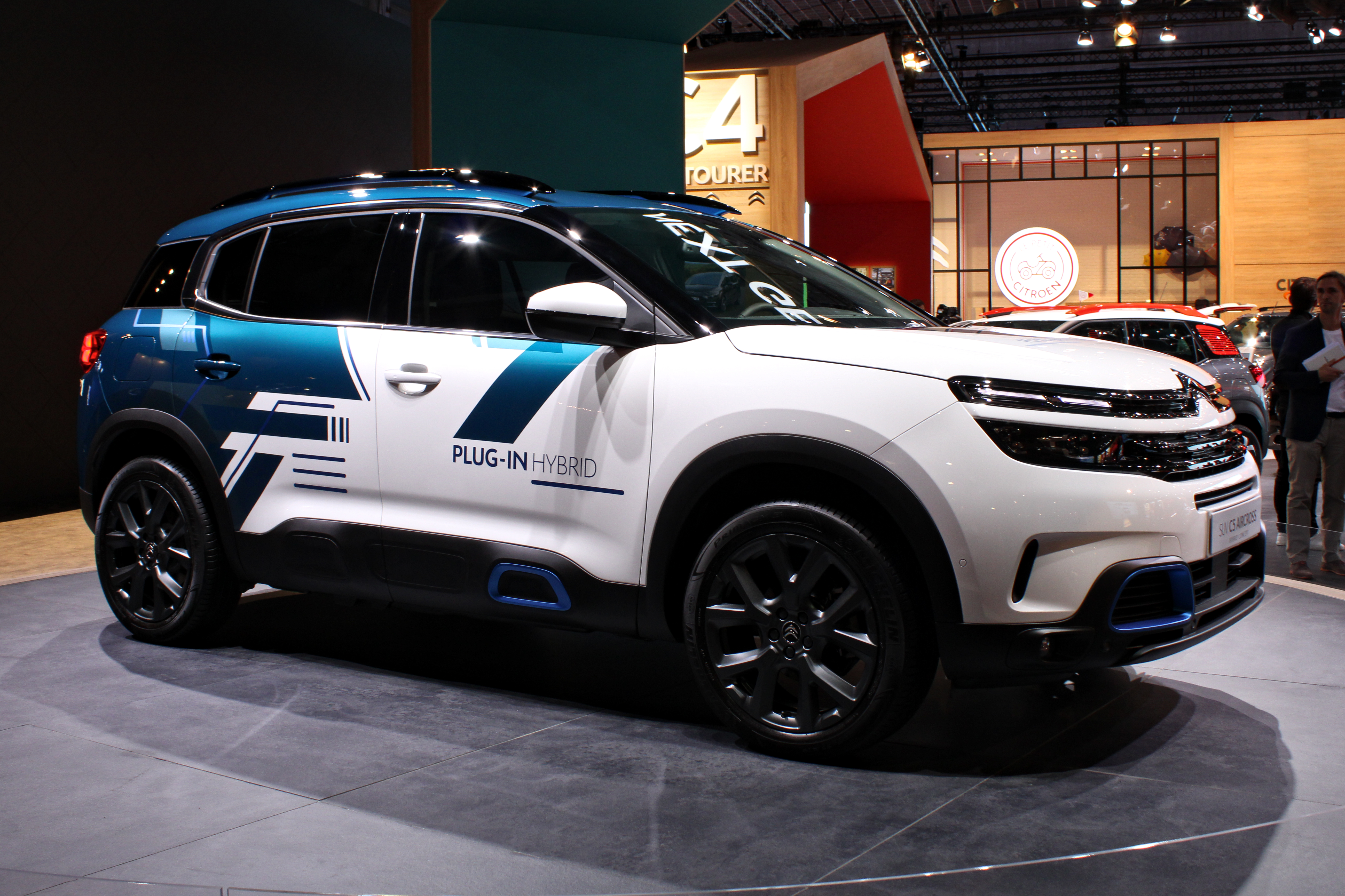 Citroen C5 Aircross Plug-in-Hybrid at Paris Motor Show 2018